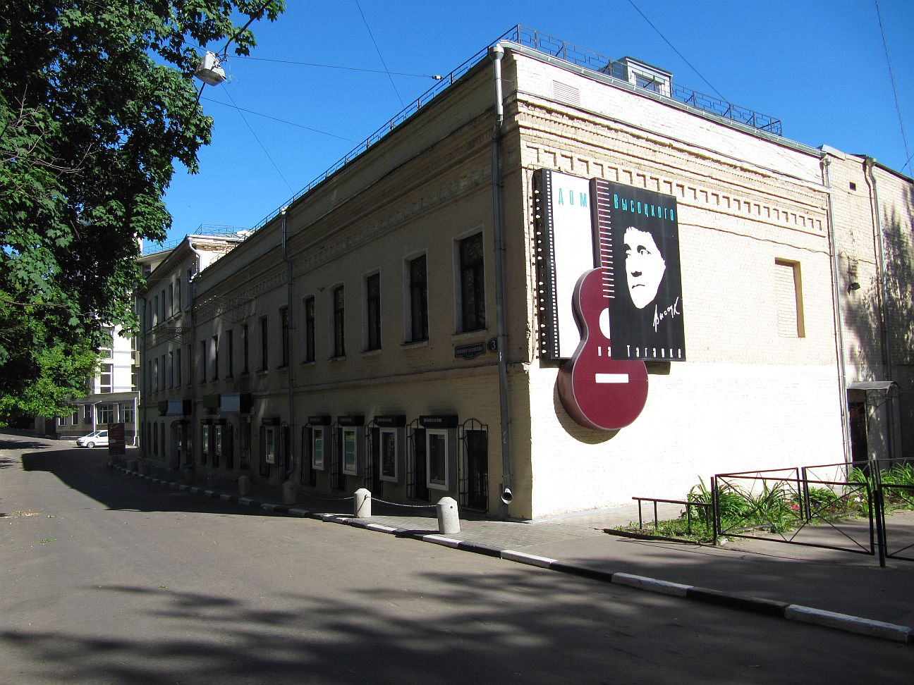 State Center-Museum of Vladimir Vysotsky. Moscow, Nizhny Tagansky impasse, 3